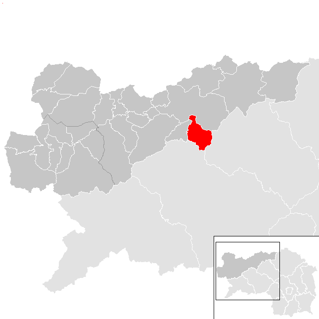 District Leoben